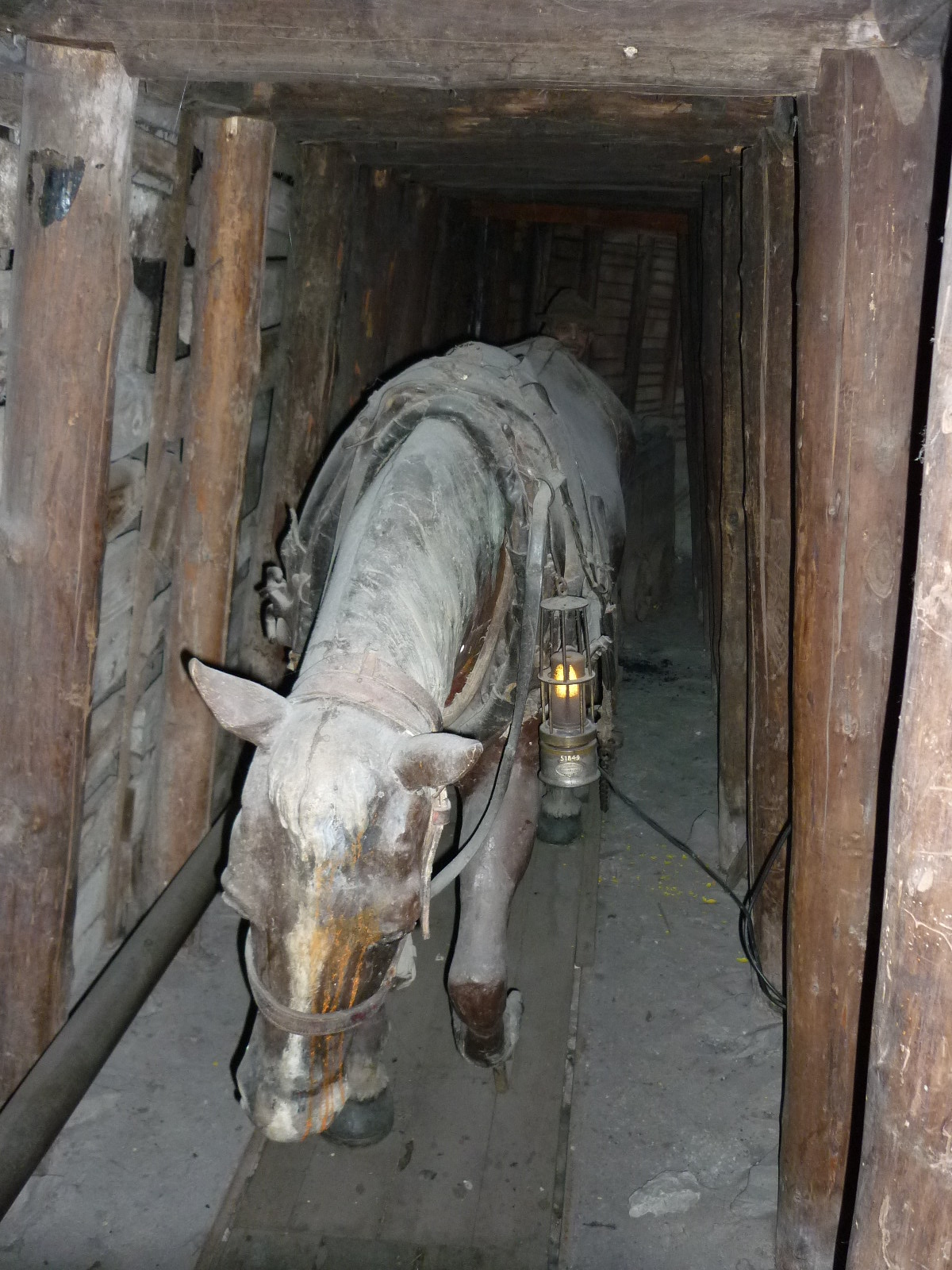 Pit pony. Model at the German Museum, Munich